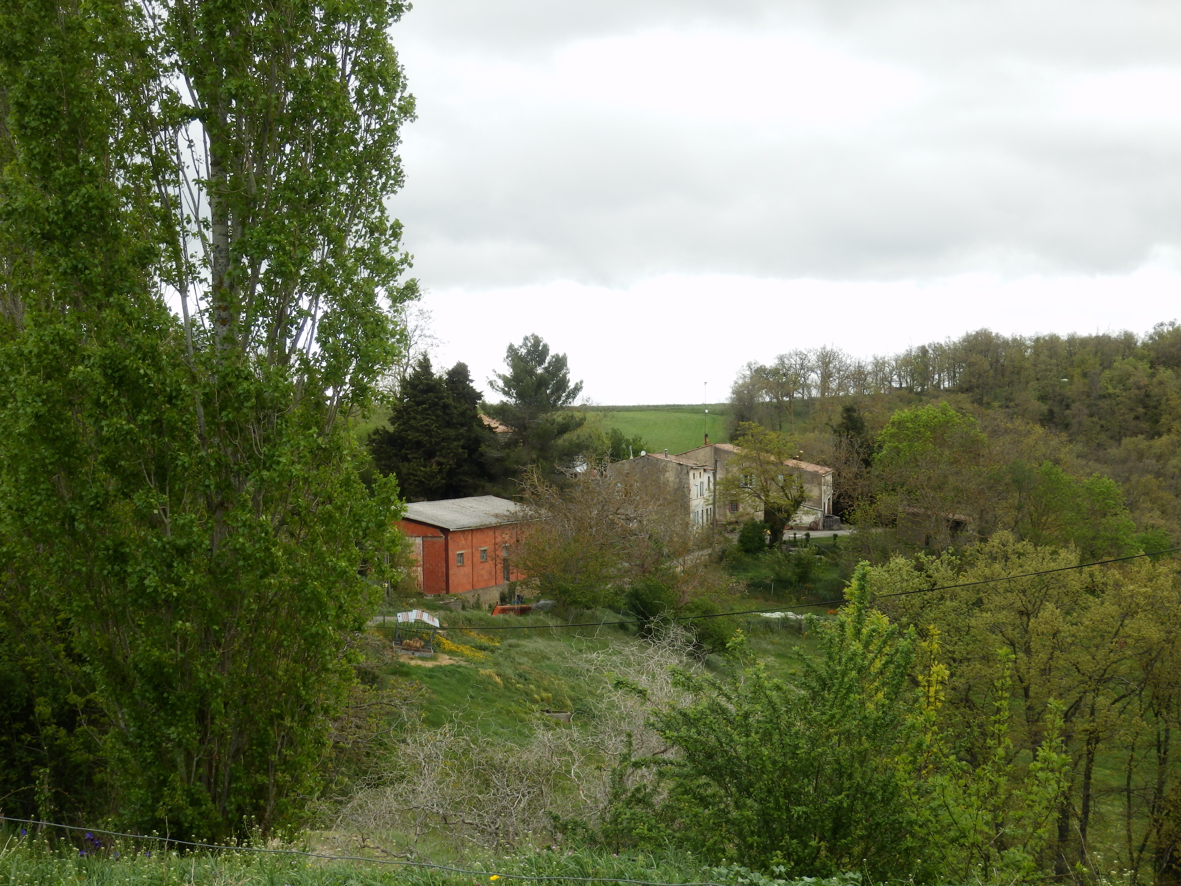 Bouriech, Bourigeole, Aude, France